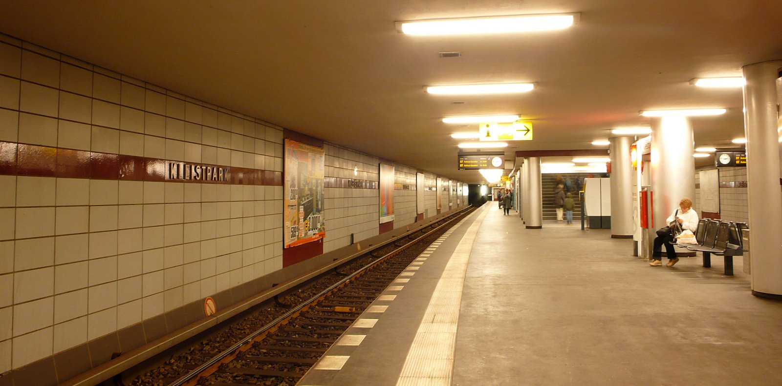 Kleistpark subway station Berlin